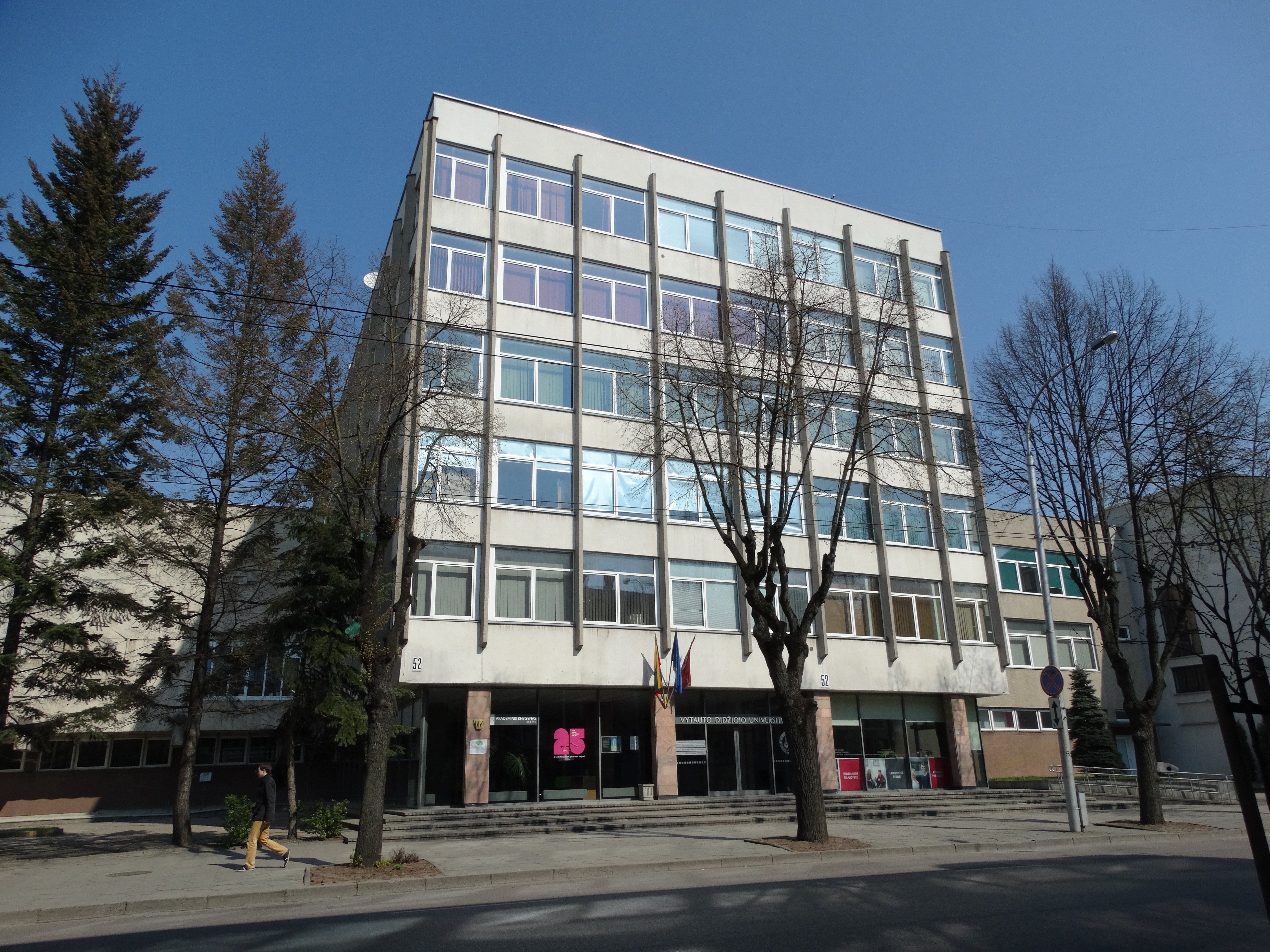 Library of Vytautas Magnus University, Kaunas, Lithuania